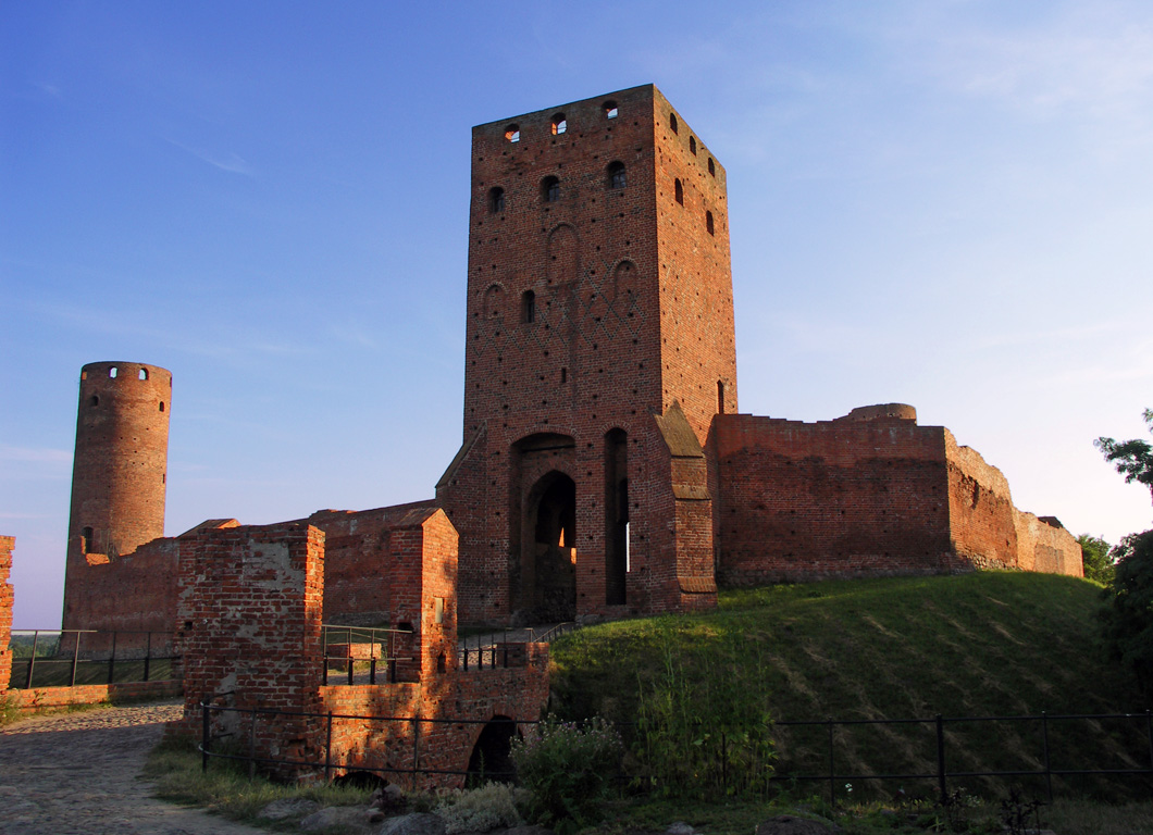 Masovian Princes Czersk Castle